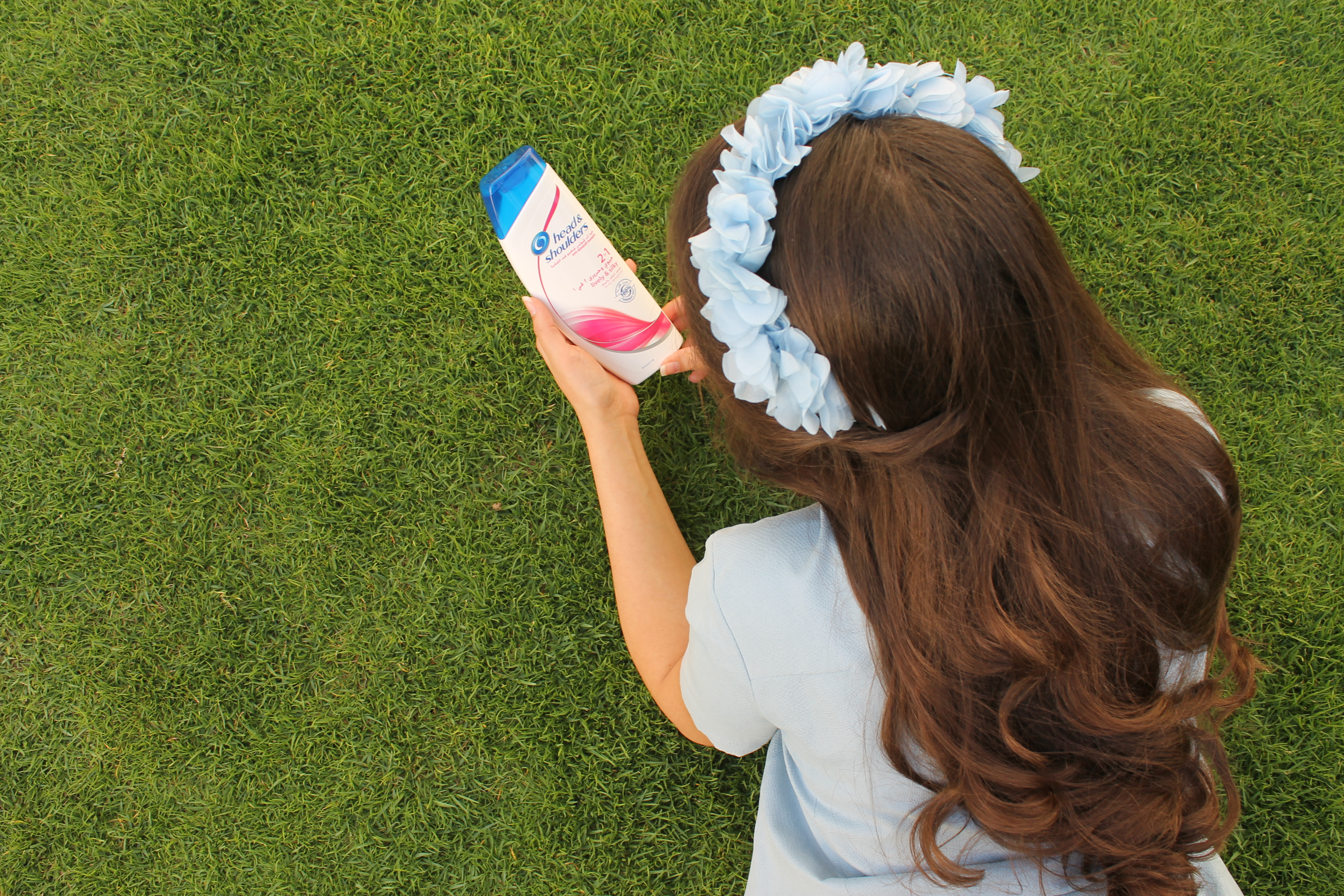 Yasmine, one of the three sisters, posing for a "Head and Shoulder"s ad. at the same time she is wearing "Aura Headpieces" also for advertising purposes.